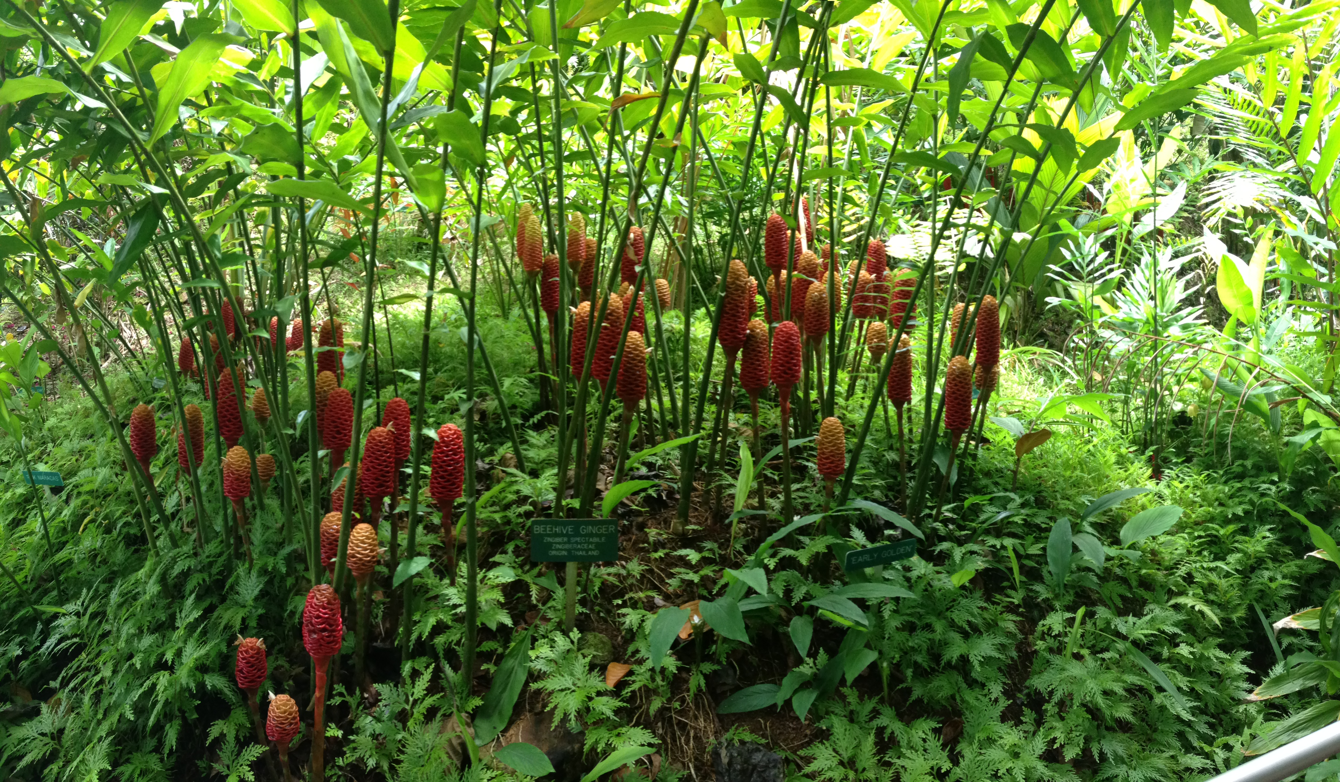 Hawaiian Red Ginger